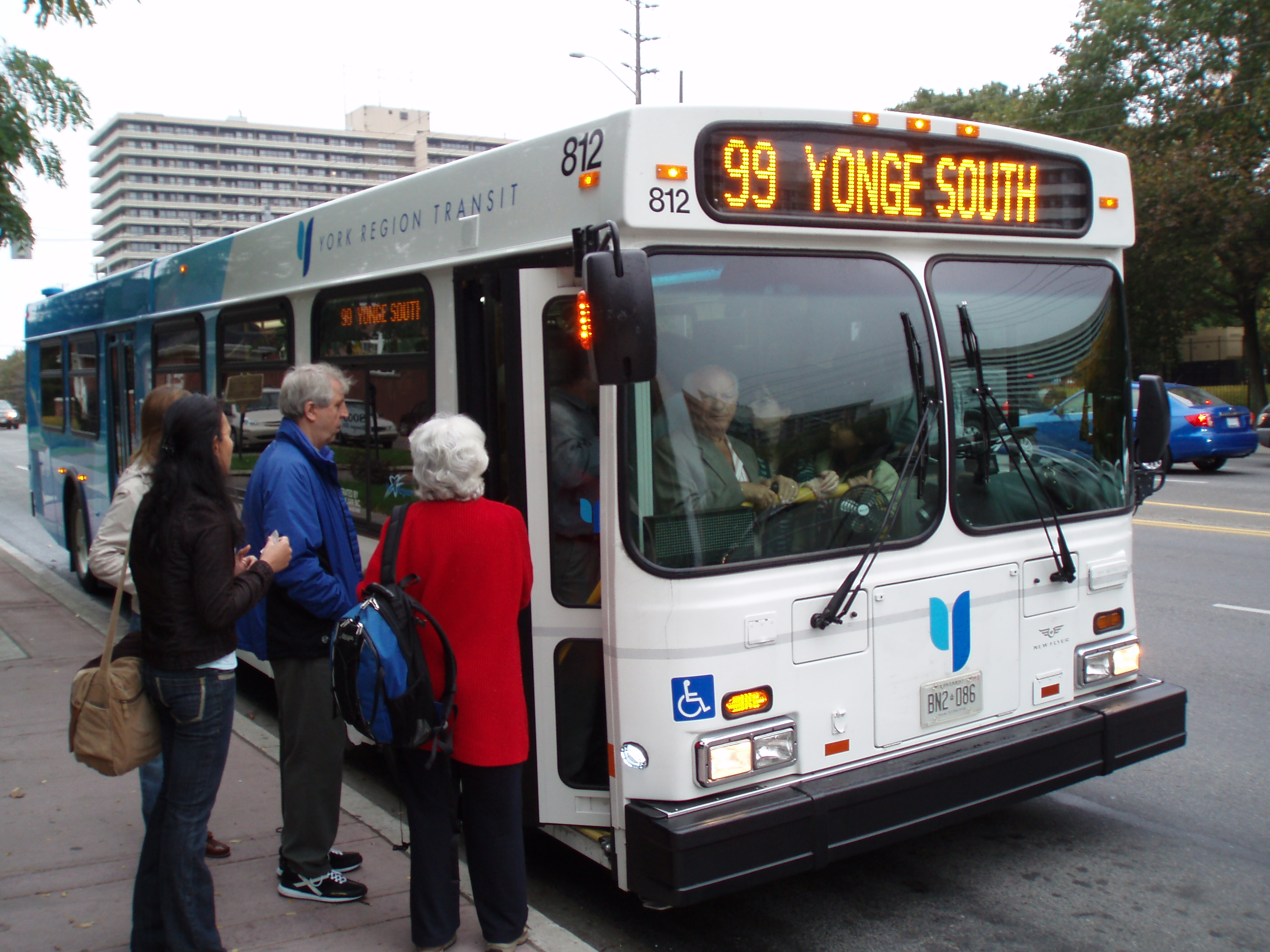 A route 99 YRT bus fully packed with passengers during the VIVA strike in Sept 2008.